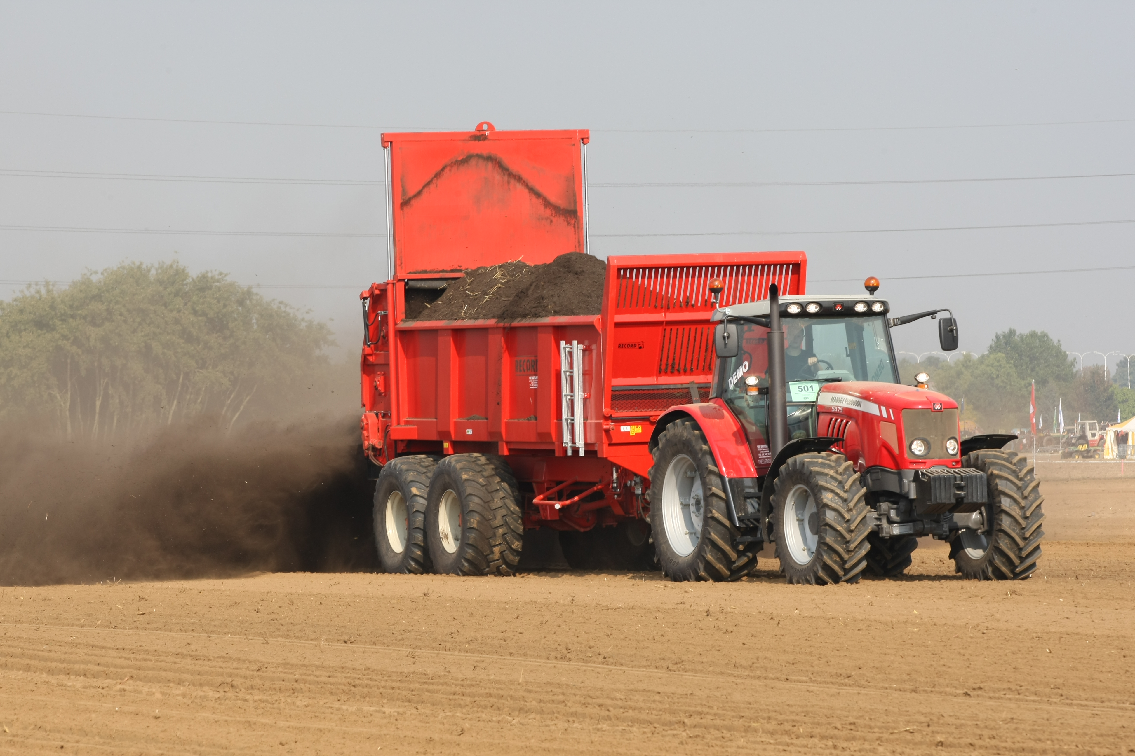 Massey Ferguson 5475 tractor with manure spreader Record at Werktuigendagen 2009